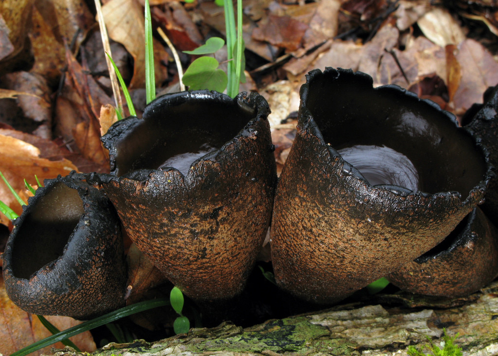 A closeup of the "Devil's Urn", cup fungus Urnula craterium (Schweinitz) Fries. Photographed in McFarland Hollow, Jackson Co., AL, USA.